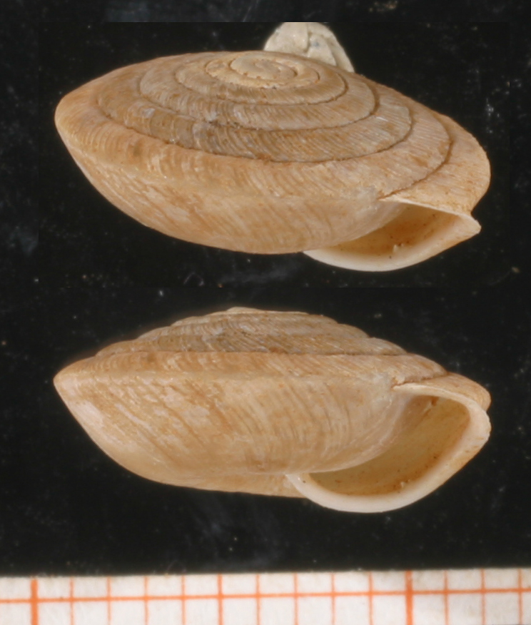 Lindholmiola lens (Férussac, 1832) (Helicodontidae, Pulmonata, Gastropoda), Isle of Psérimos, Greece